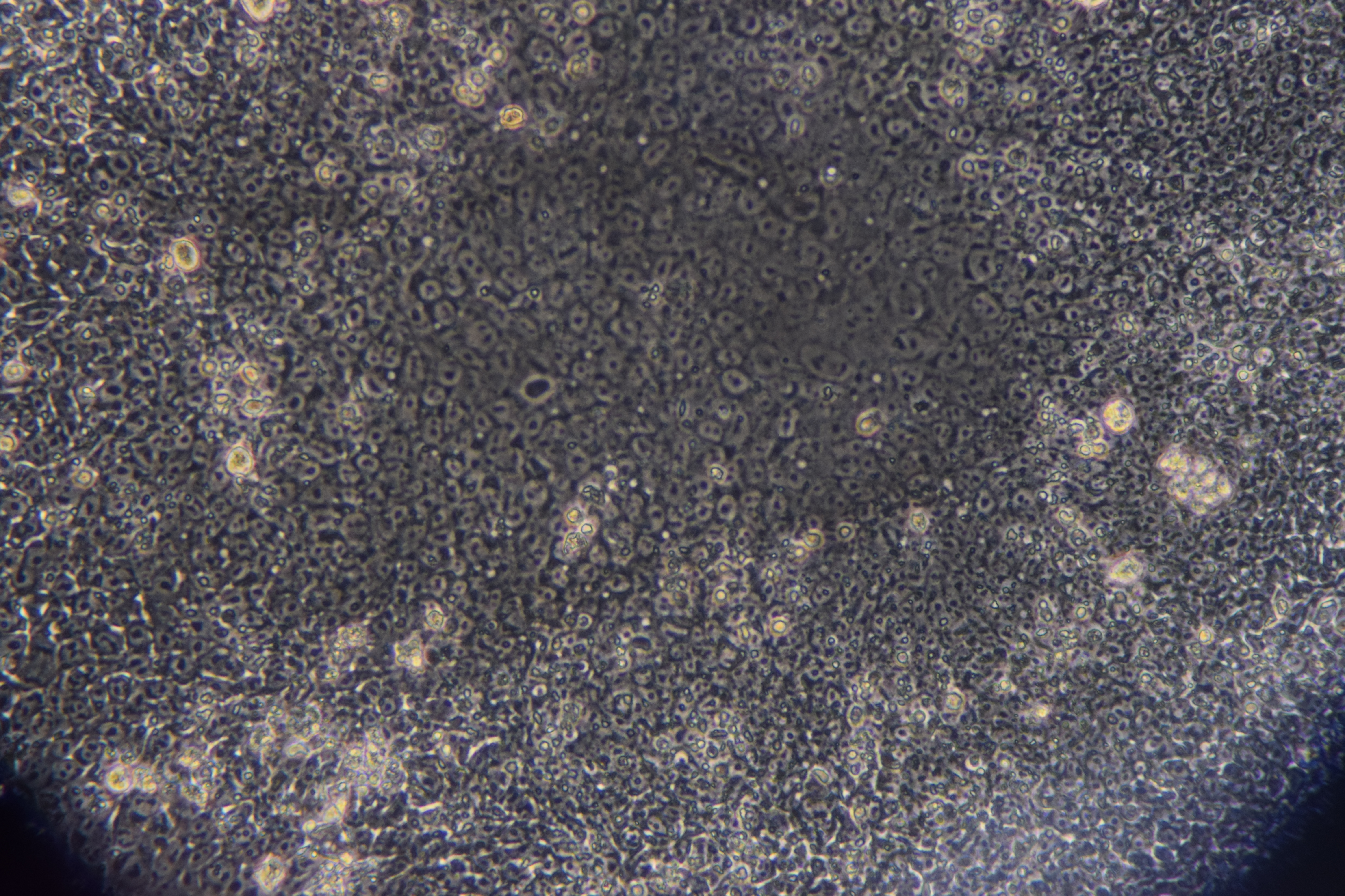 induced pluripotent stem cells in MIRAI EXPO, Kobe